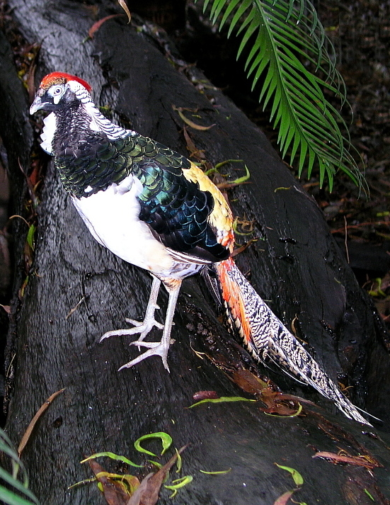 Lady amherst pheasant, Fasan